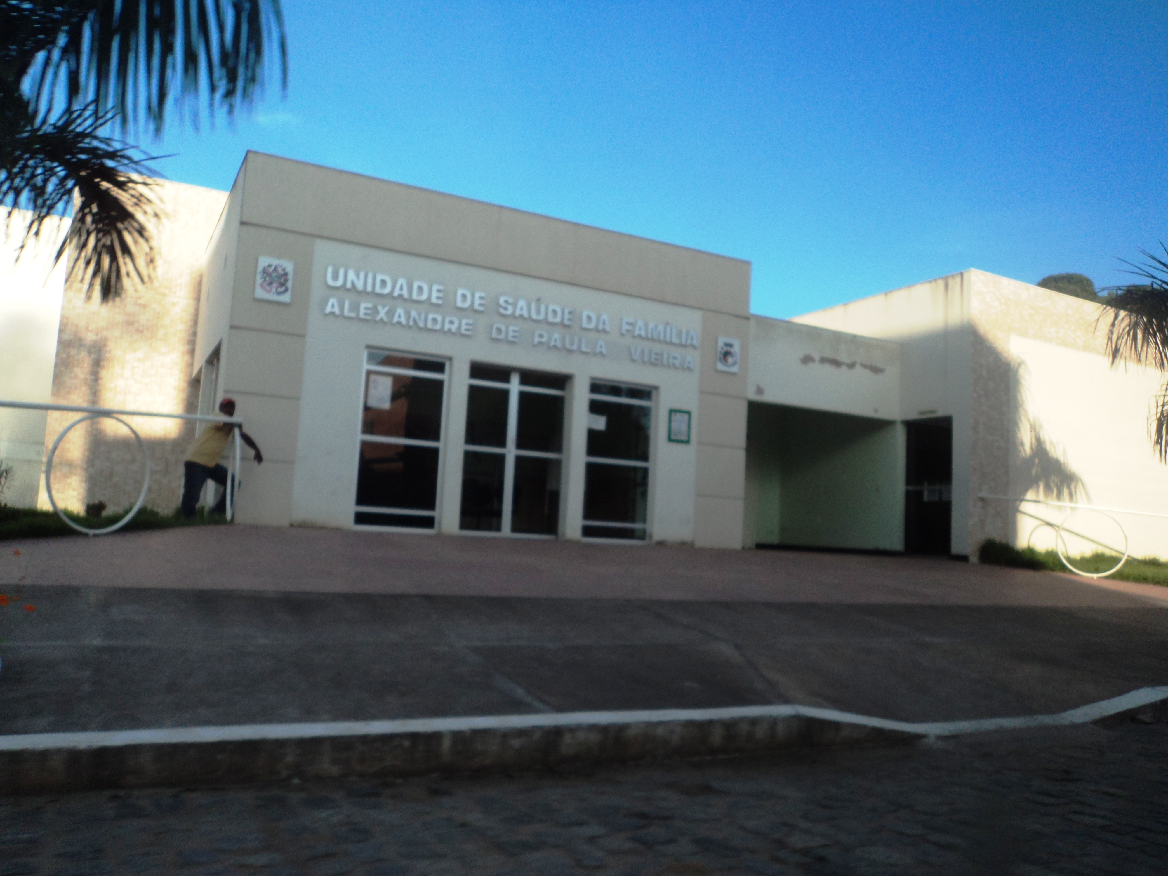 Front of the Alexandre de Paula Family Health Unit, in Baixo Guandu, Espírito Santo, Brazil.